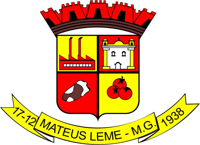 City seal of Mateus Leme